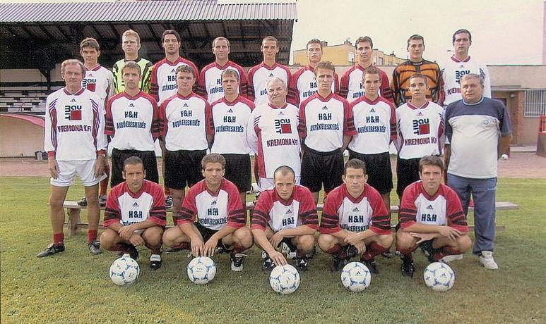 This team has been played in special second class what was named, NB. I.